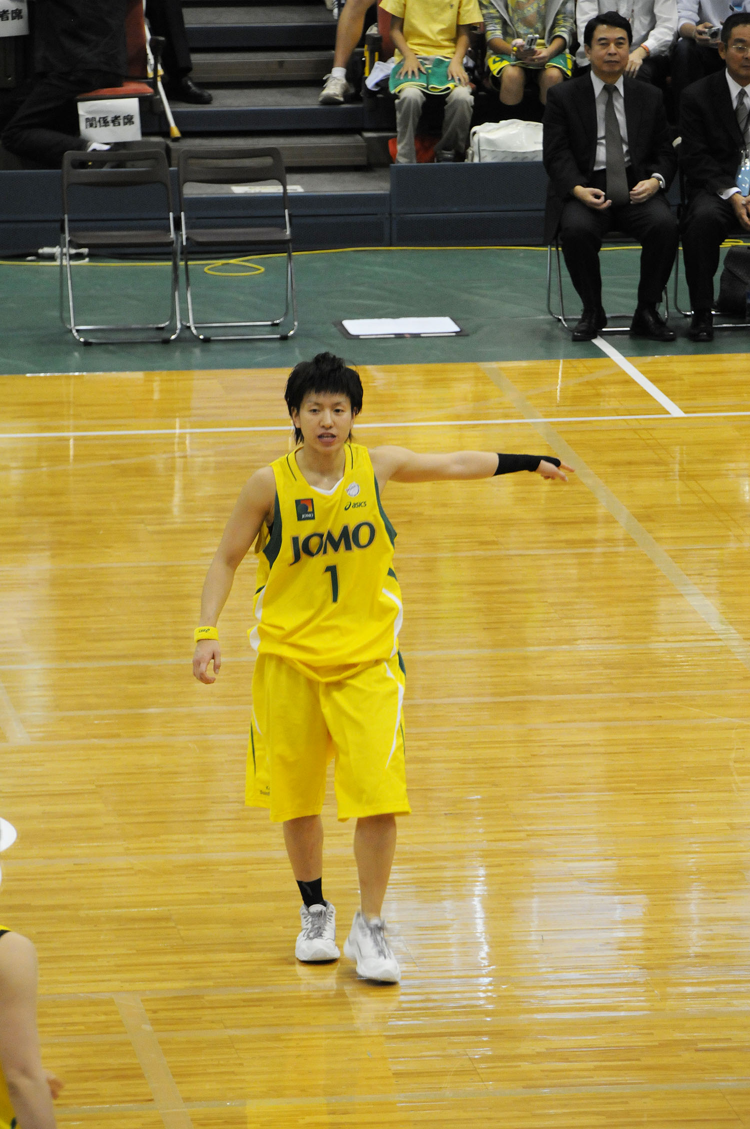 Yuko Oga of the JOMO Sunflowers in Funabashi Arena.